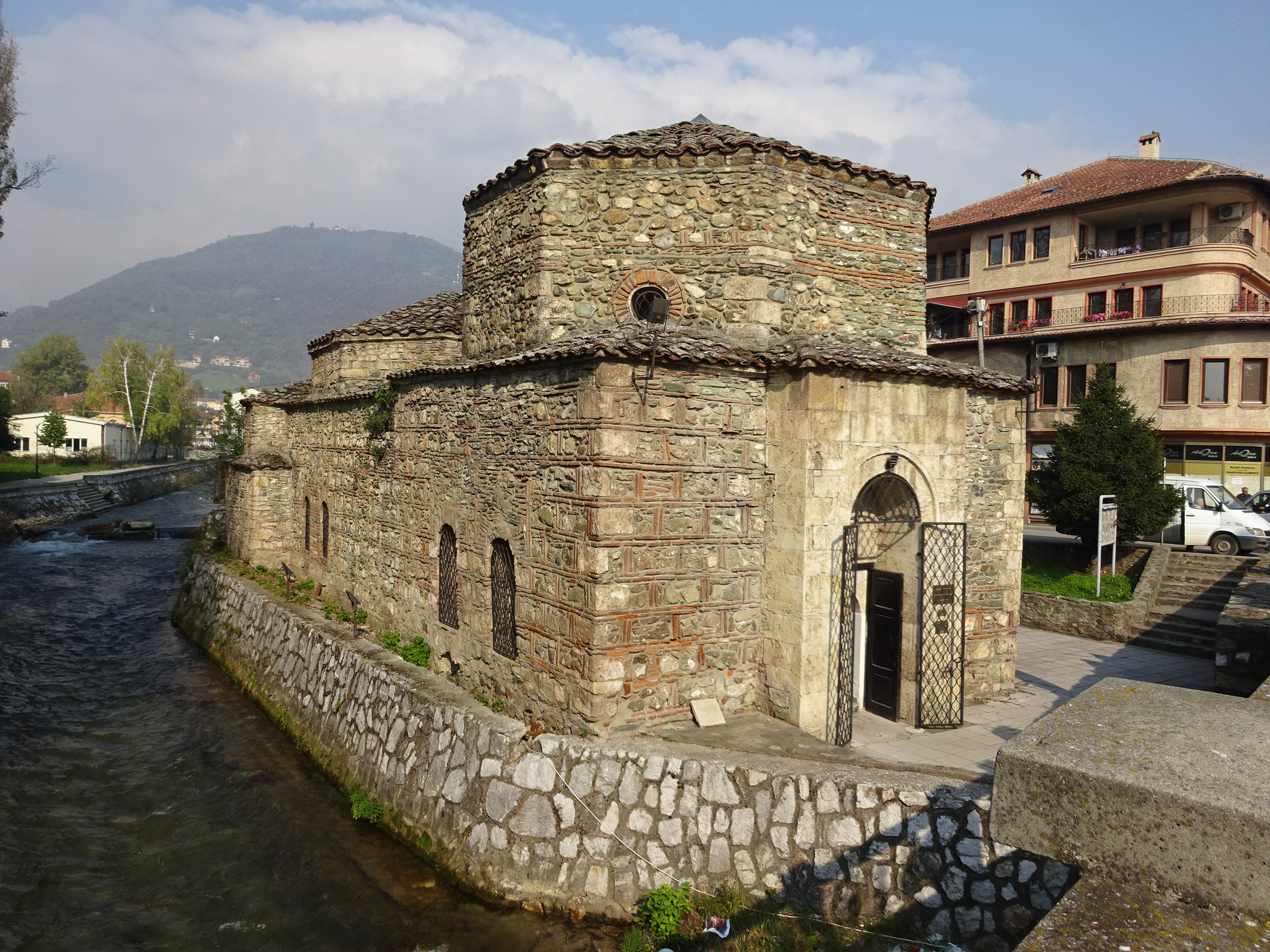 Old hamam in Tetovo, Macedonia Ова е фотографија на споменик на културата во Македонија со типски код: B05This is a a photo of a cultural monument in North Macedonia with type id: B05